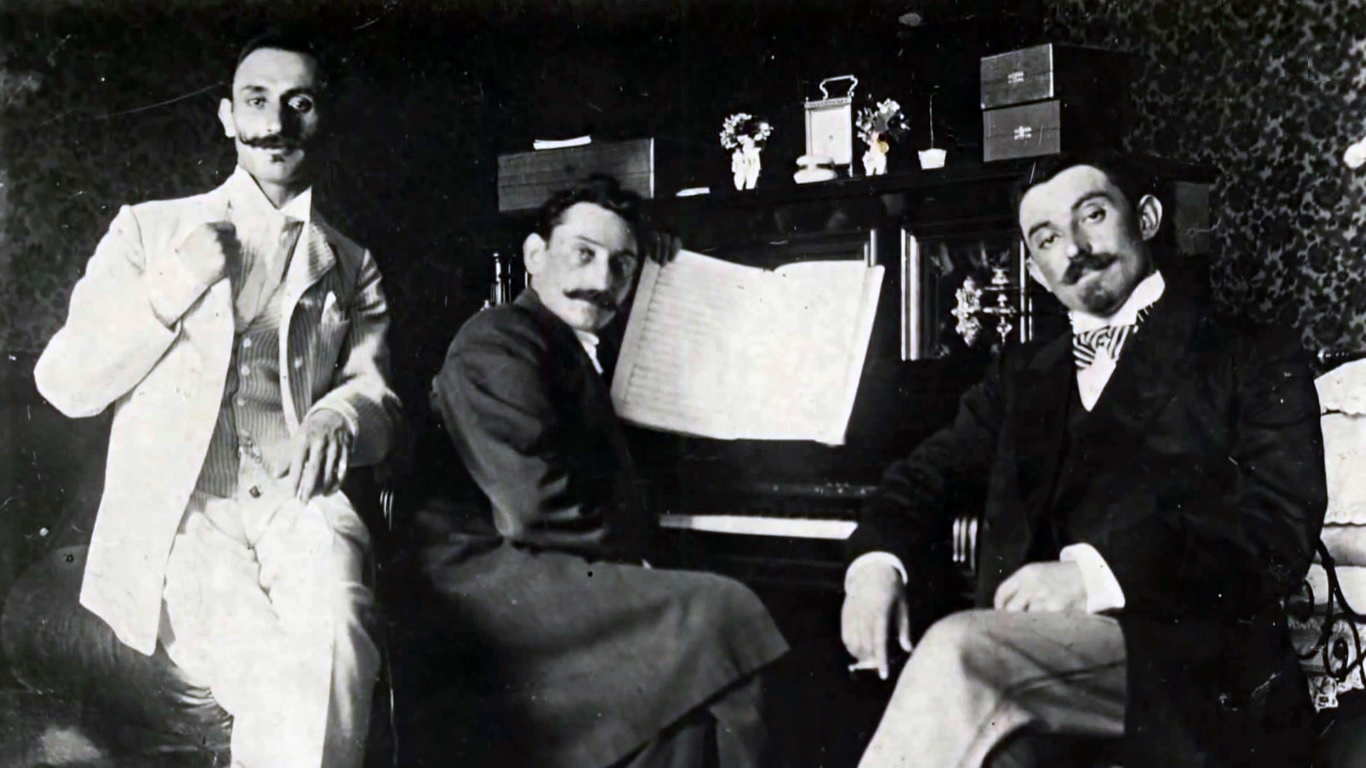 Georgian classical composer Zacharia Paliashvili (far right) with his brothers Polycarp (far left) and Ivane (middle).